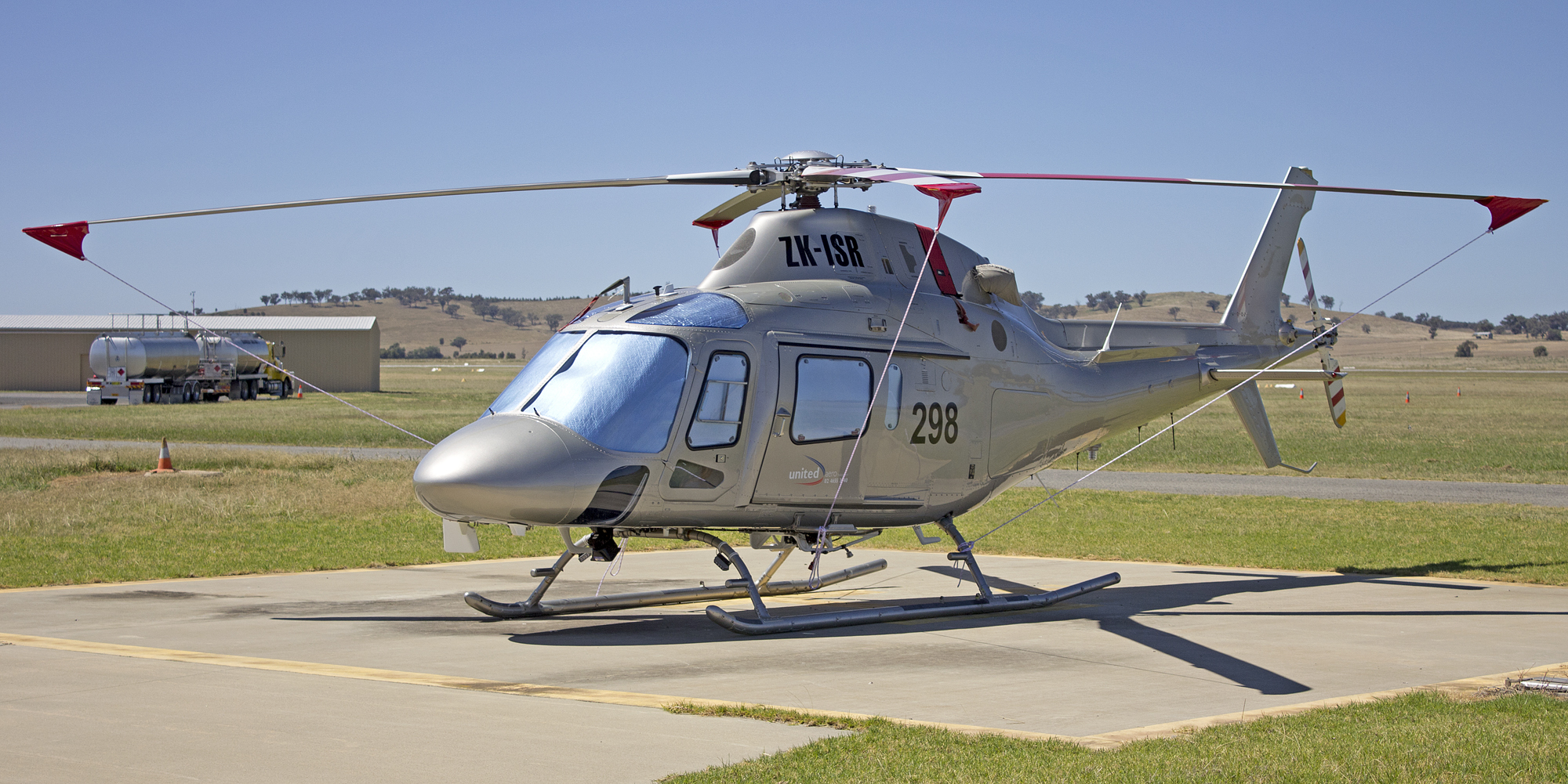 AgustaWestland AW119 Koala Ke (ZK-ISR) at the Wagga Wagga Airport heli-pad.